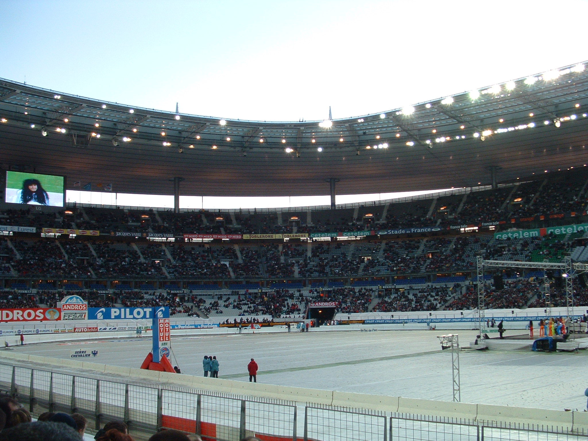 Andros Trophy 2004, Stade de France, France